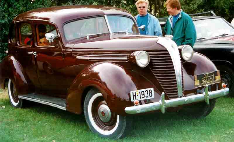 Hudson Custom Six (Series 83) 4-Door Sedan (1938)